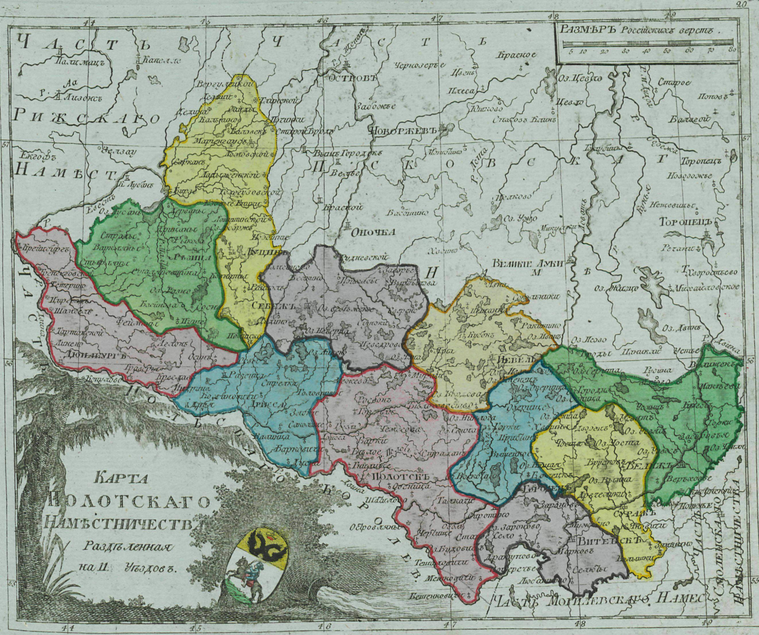 Small atlas of the Russian Empire (1792). Map of Polotsk Namestnichestvo (map 19).